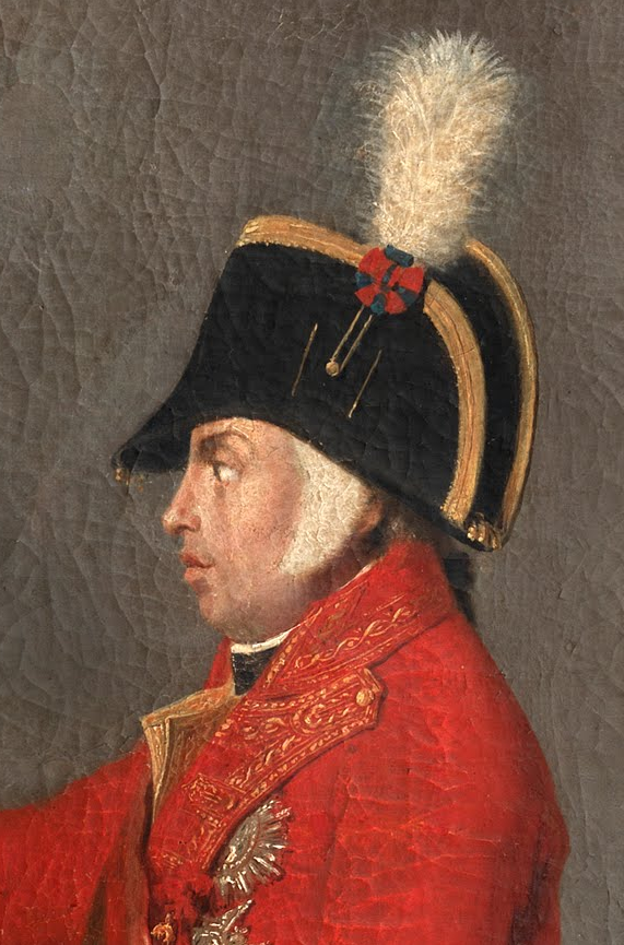 The Prince Regent João reviewing the troops at Azambuja, 1803.